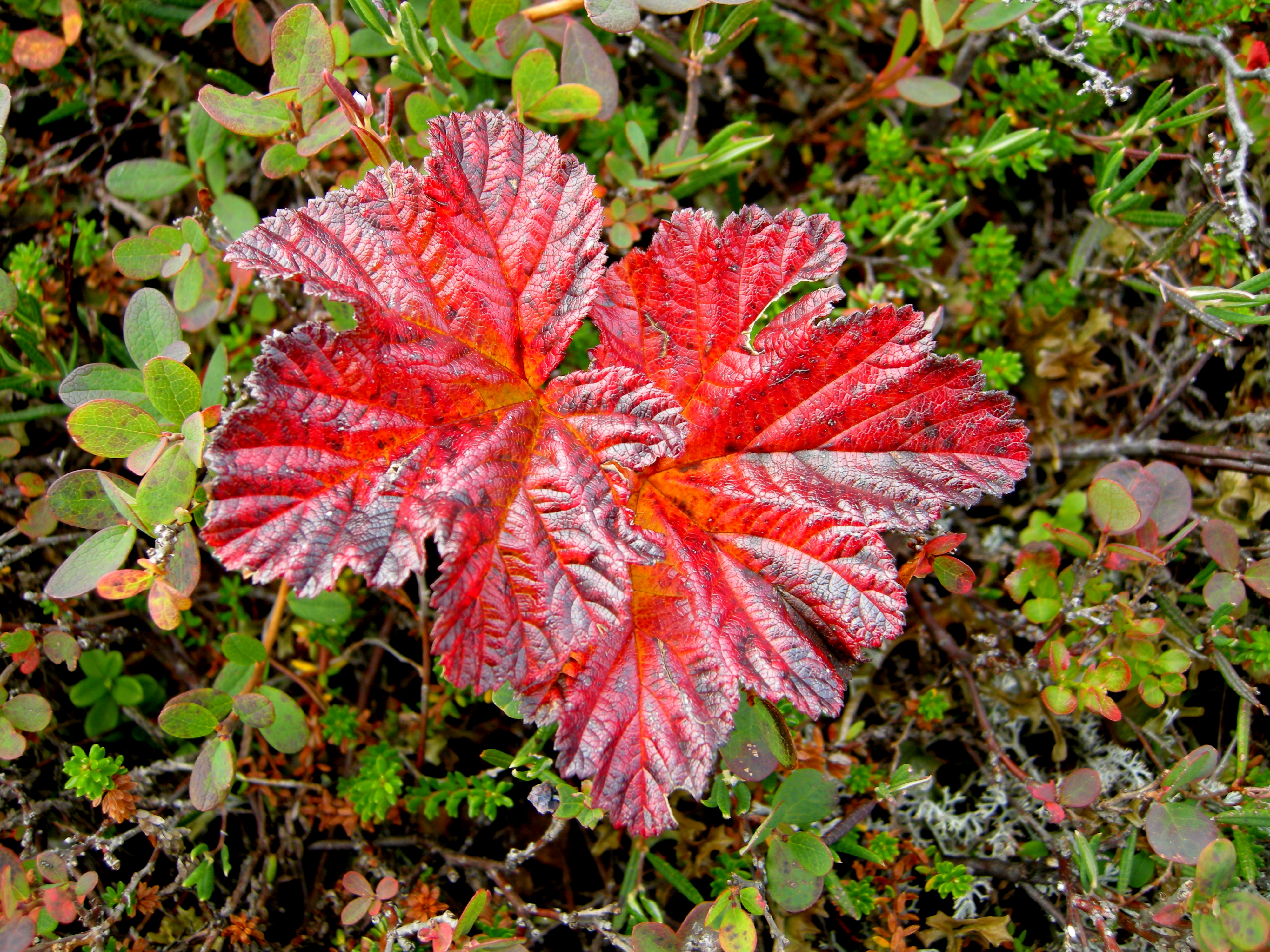 Cloudberry - Rubus chamaemorus - autumn